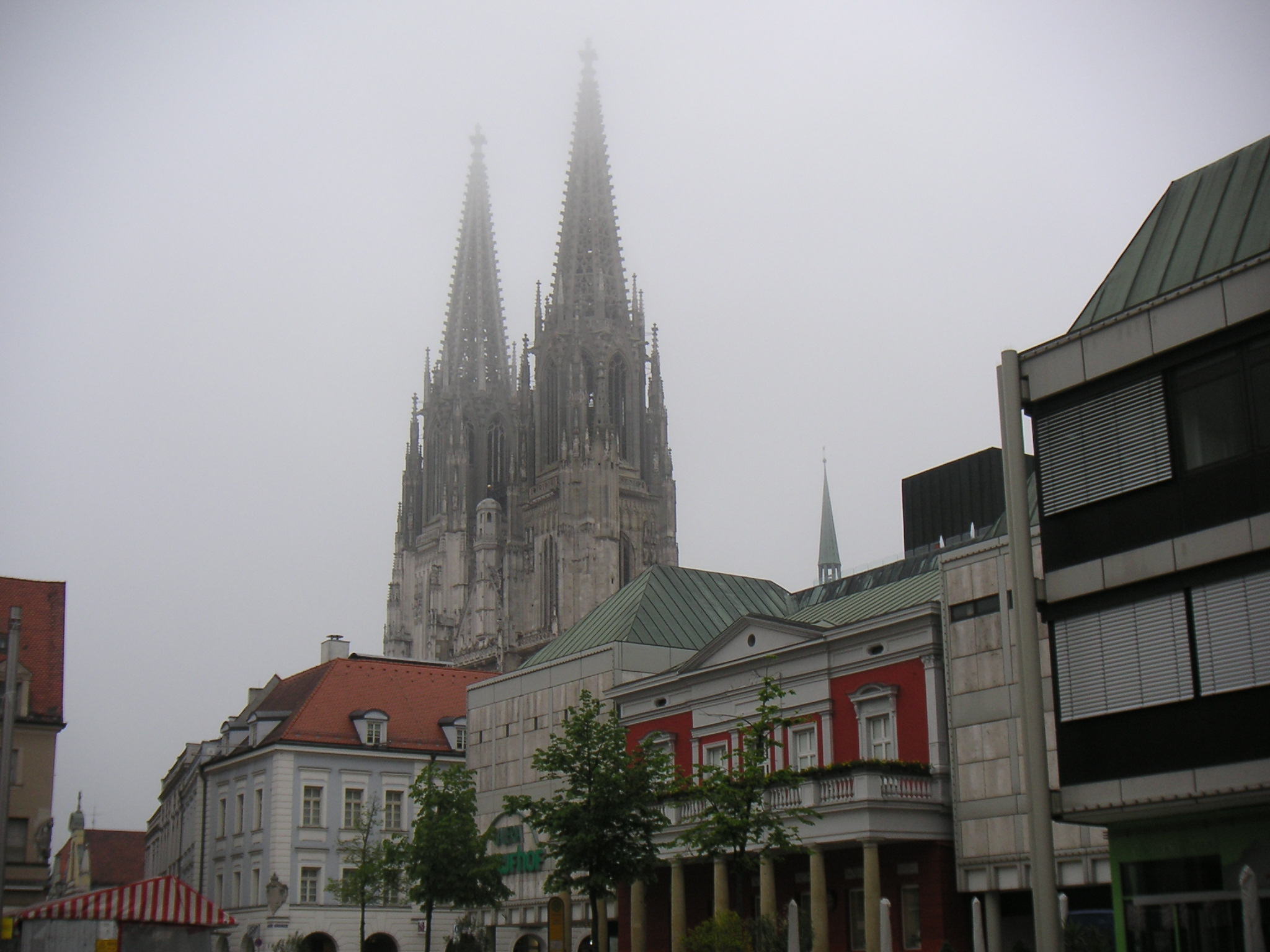 Regensburg, old city watch, cathedral towers.